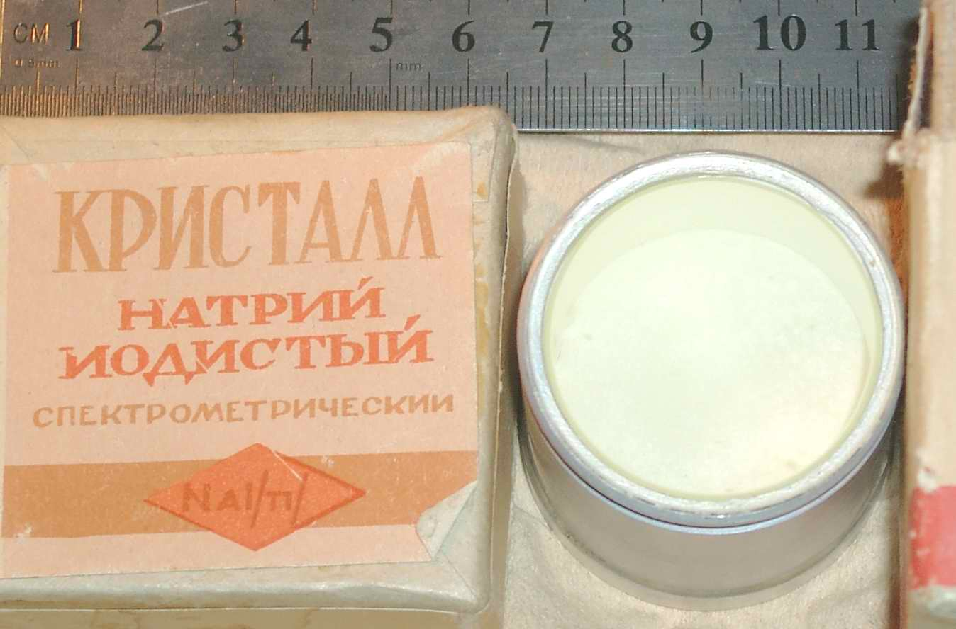 Cristall of NaI(Tl). Size 40x40 mm. USSR, 1964.